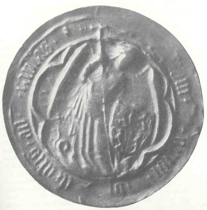 City seal of Brussels, c. 1400. Latin inscription: SIGILLUM COMMUNE URBIS BRUXELLENSIS AD CAUSAS